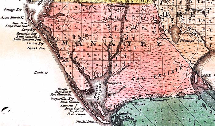 Map of Manatee County as it existed in 1856, one year after it was created.